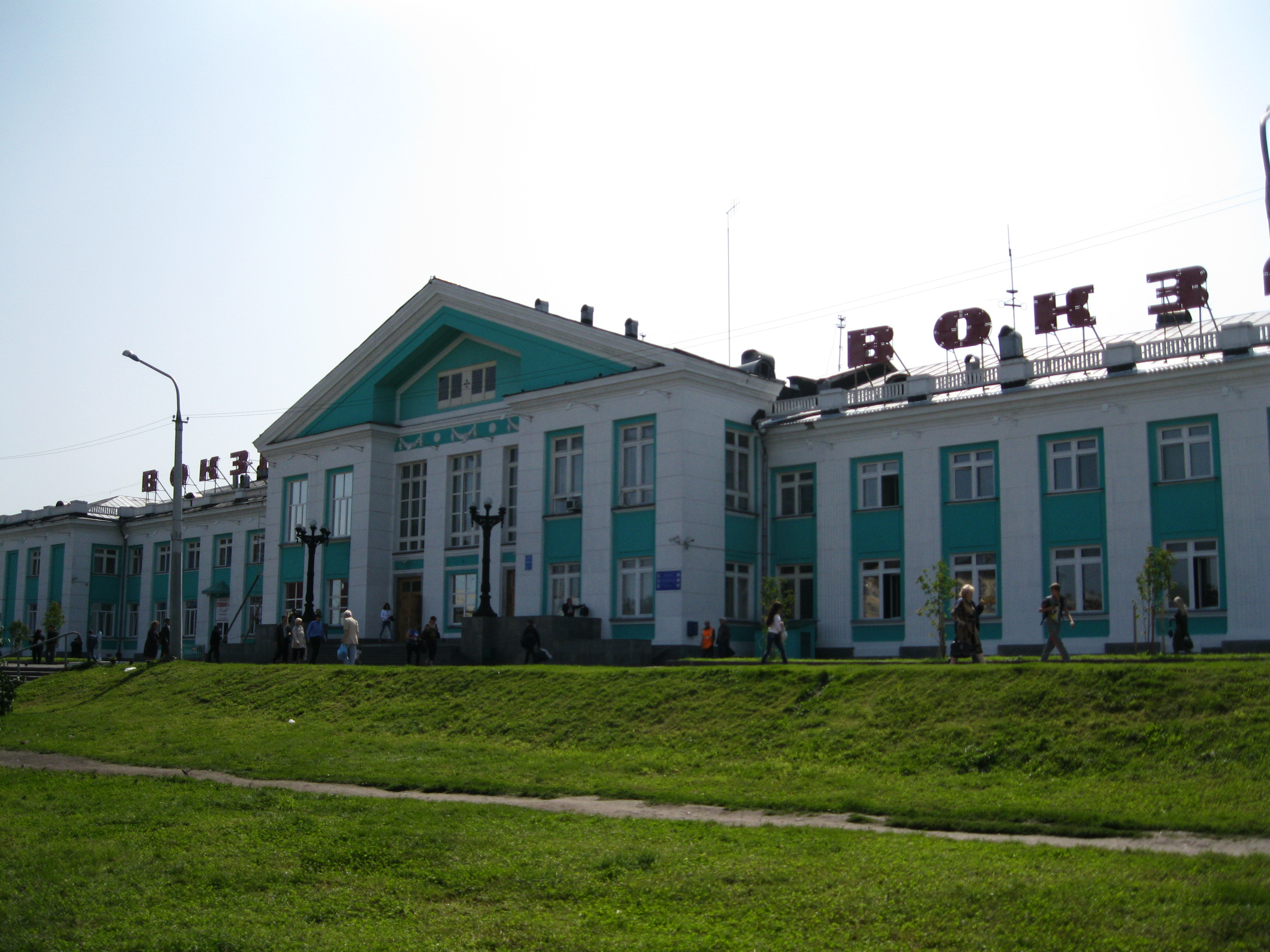 Novokuznetsk railway station, Russia